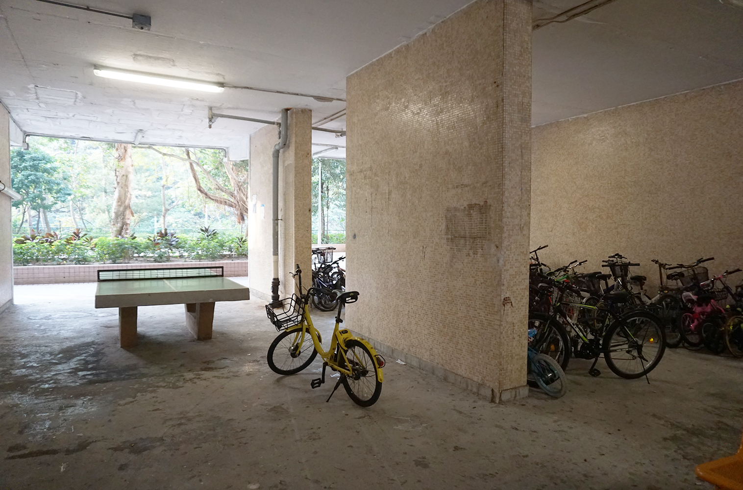 Sun Tin Wai Estate in Sha Tin Tau, Hong Kong.